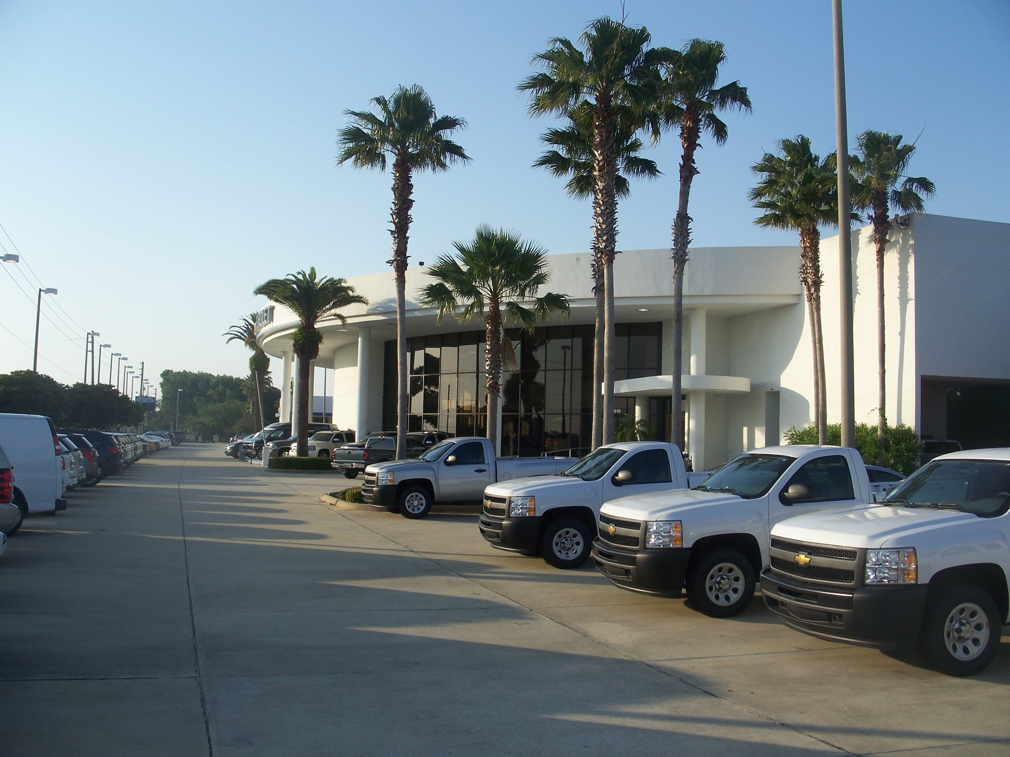 New Smyrna Beach, Florida: Turnbull Colonists' House Archeological Site: The remains of the house were discovered while a Chevrolet dealership was being built here. There's a plaque marking the specific site, but I couldn't find it. Perhaps it's inside one of the buildings.